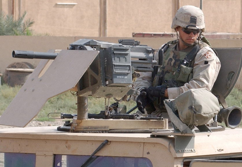 A military police Soldier provides security with his MK19-3 40mm grenade machine gun while seated in the turret of his humvee. The Soldier is assigned to the 4th Infantry Division's 4th Military Police Company. The unit provided an escort for Soldiers of the 230th Finance Battalion and the 443rd Civil Affairs Battalion, who were overseeing the Iraqi Currency Exchange in Balad, Iraq.